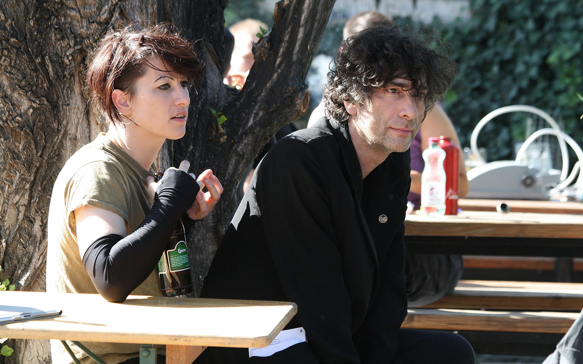 Amanda Palmer and Neil Gaiman during an interview for ORF radio before a concert at the Arena in Vienna, Austria.